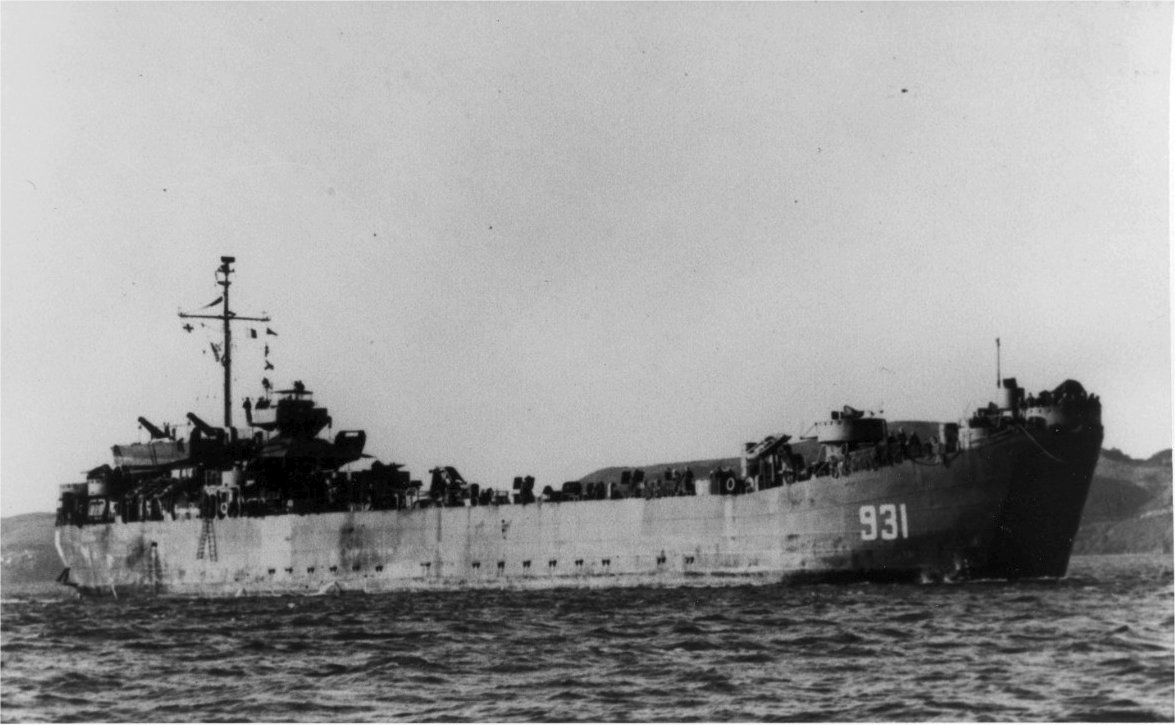 USS LST-931 in San Francisco Bay, circa 1945-46.